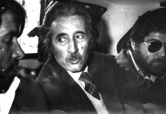 Edgardo Sogno arrested